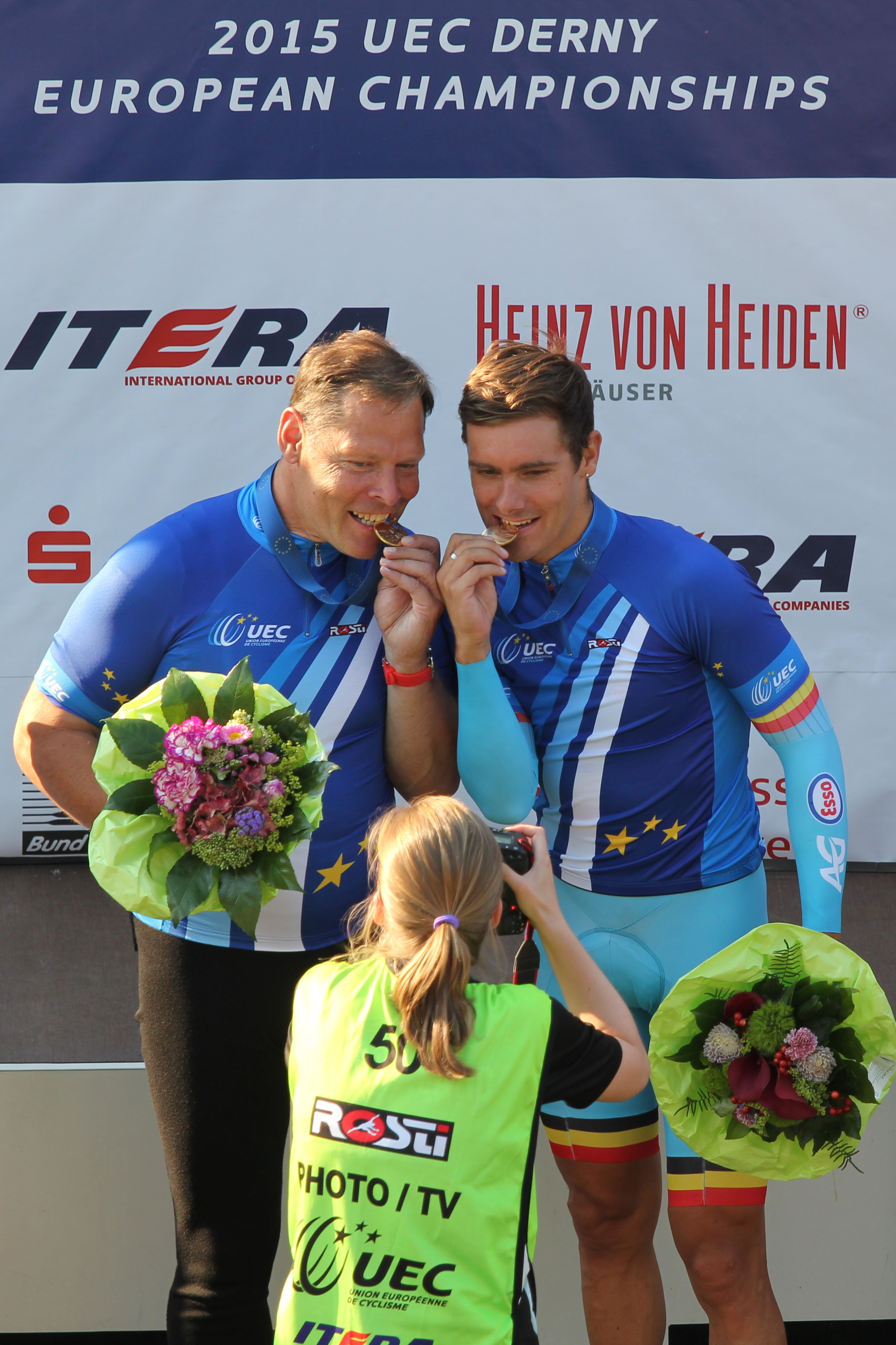 UEC Derny European Championship 2015 - Finals place 1 - 9, 120 laps / 40 km, f.l.t.r. Michel Vaarten (Belgium), Kenny De Ketele (Belgium)